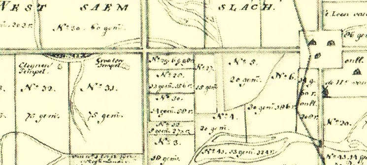 Left the Preceptory and the hospital of Zaamslag in 1776